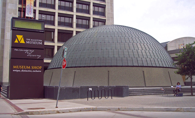 Manitoba Museum Planetarium